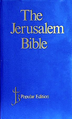 The Jerusalem Bible first appeared in 1966 and was the work of a team of scholars using the resources of the French Biblical School in Jerusalem. It was hailed as a masterpiece of textual accuracy and modern style, which kept as close as possible to the meaning of the ancient texts from which it had been translated. The literary quality of this version is admirable - among the English stylists who worked with the translators was J.R.R. Tolkien. The Jerusalem Bible translation is the most widely used in the New Order English Mass. The compact Popular Edition has short footnotes explaining key details and is an excellent resource for the general reader. Summary The Jerusalem Bible; Popular Edition; published by Darton, Longman & Todd Ltd; ISBN 0-232-51283-3